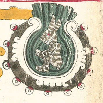 Luna